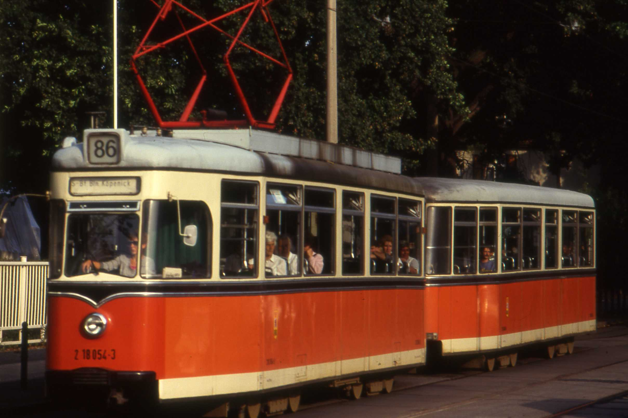 After the BVG Verkehrsreform, the 86 was renumbered 68 in 1993 Alt-Schmöckwitz - S Bahnhof Berlin Köpenick. 218 054-3 is one of the attractive Grossraumwagen.